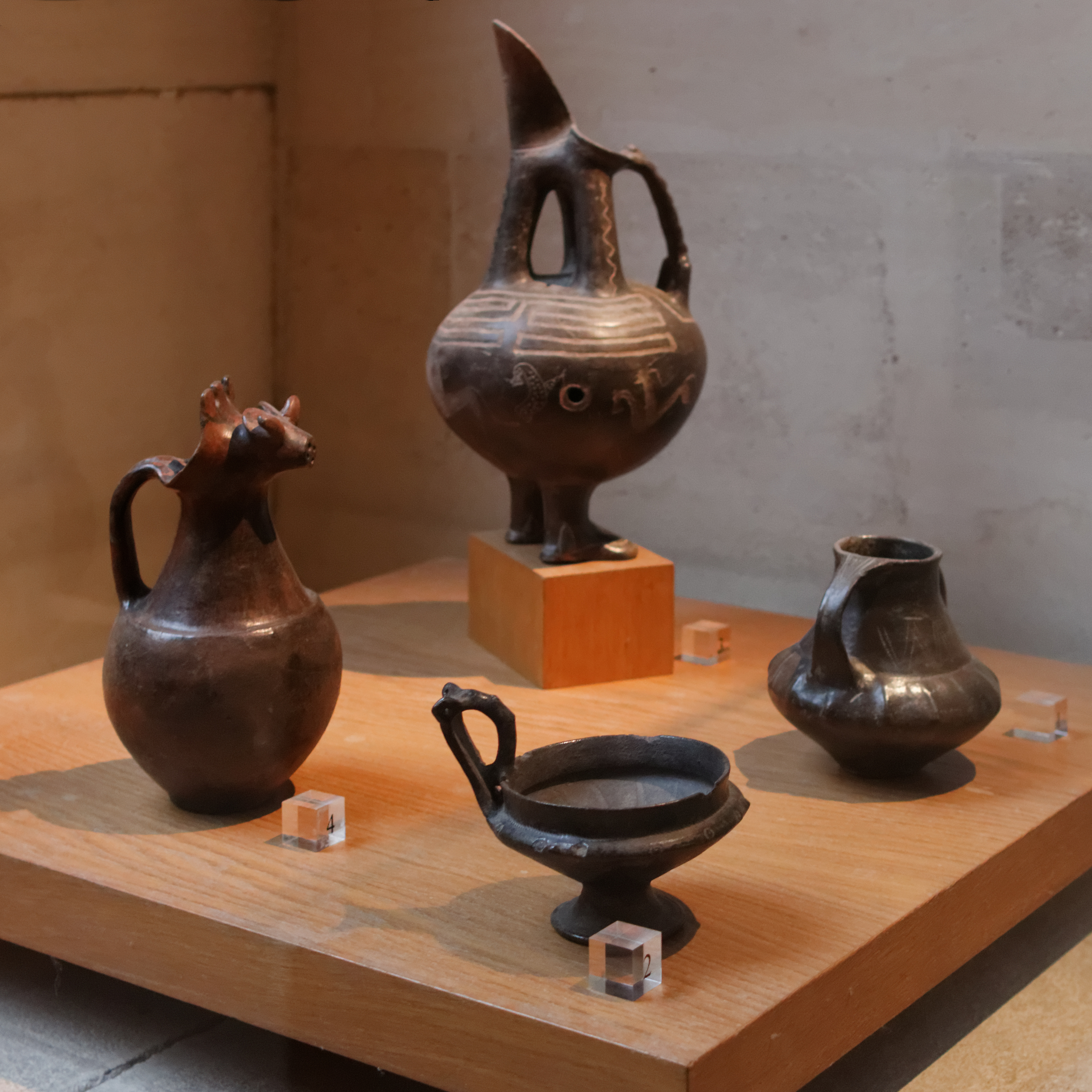 terracottamedium QS:P186,Q60424 (impasto) between 8th century BC date QS:P,-750-00-00T00:00:00Z/7 and 7th century BC date QS:P,-650-00-00T00:00:00Z/7